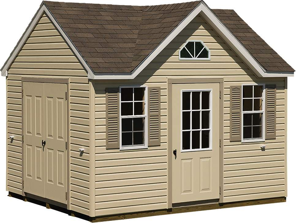 10x12 Vinyl Manor Shed